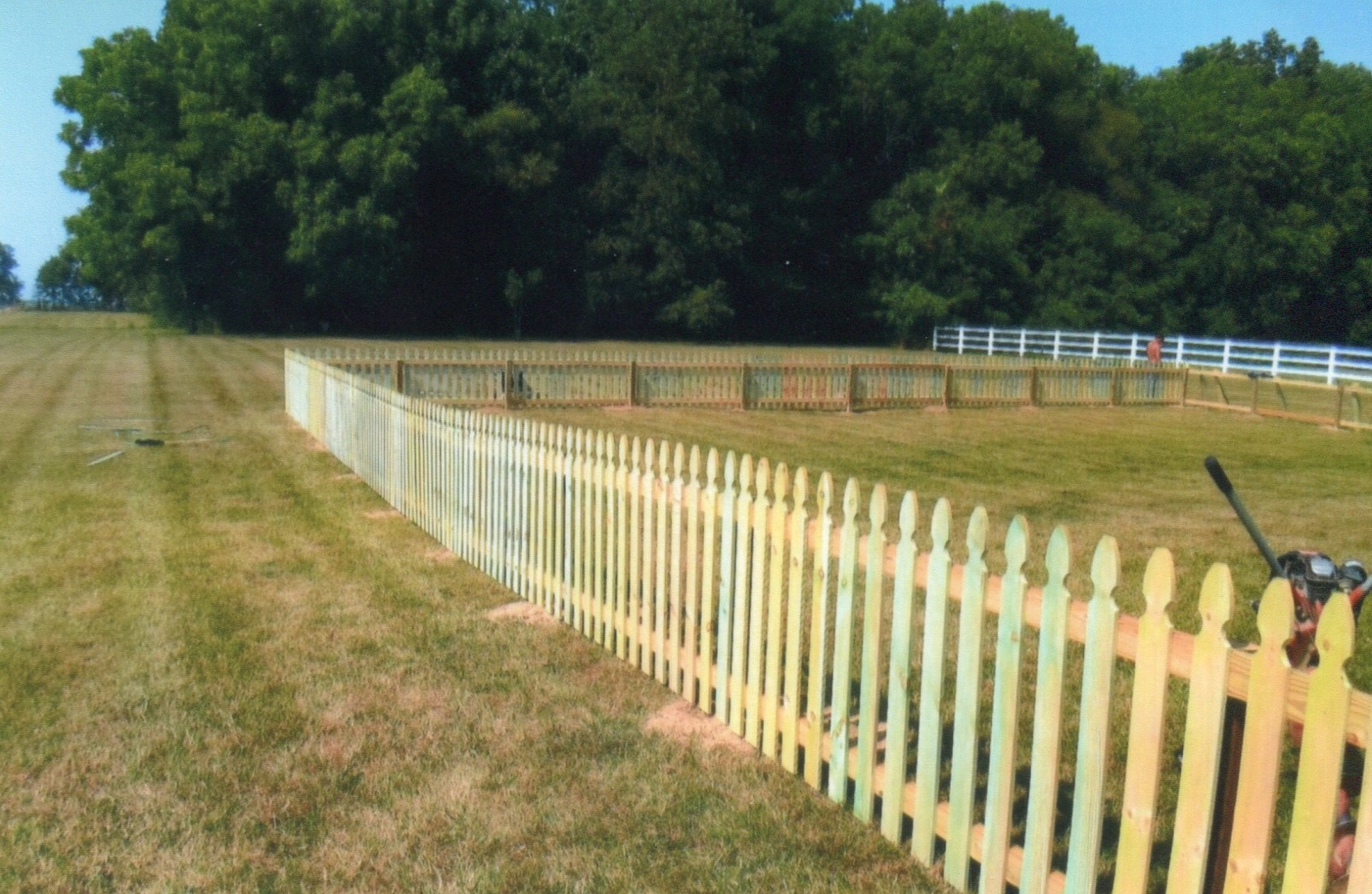 Gothic picket fences have a more ornate board top, setting them apart from scalloped or spear tops. This fence was built using pressure treated pine.